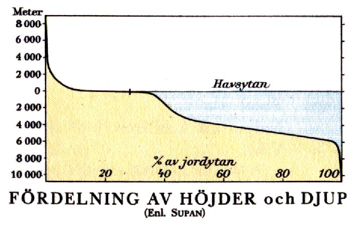 Distribution of land heights and sea depths over the surface of the Earth